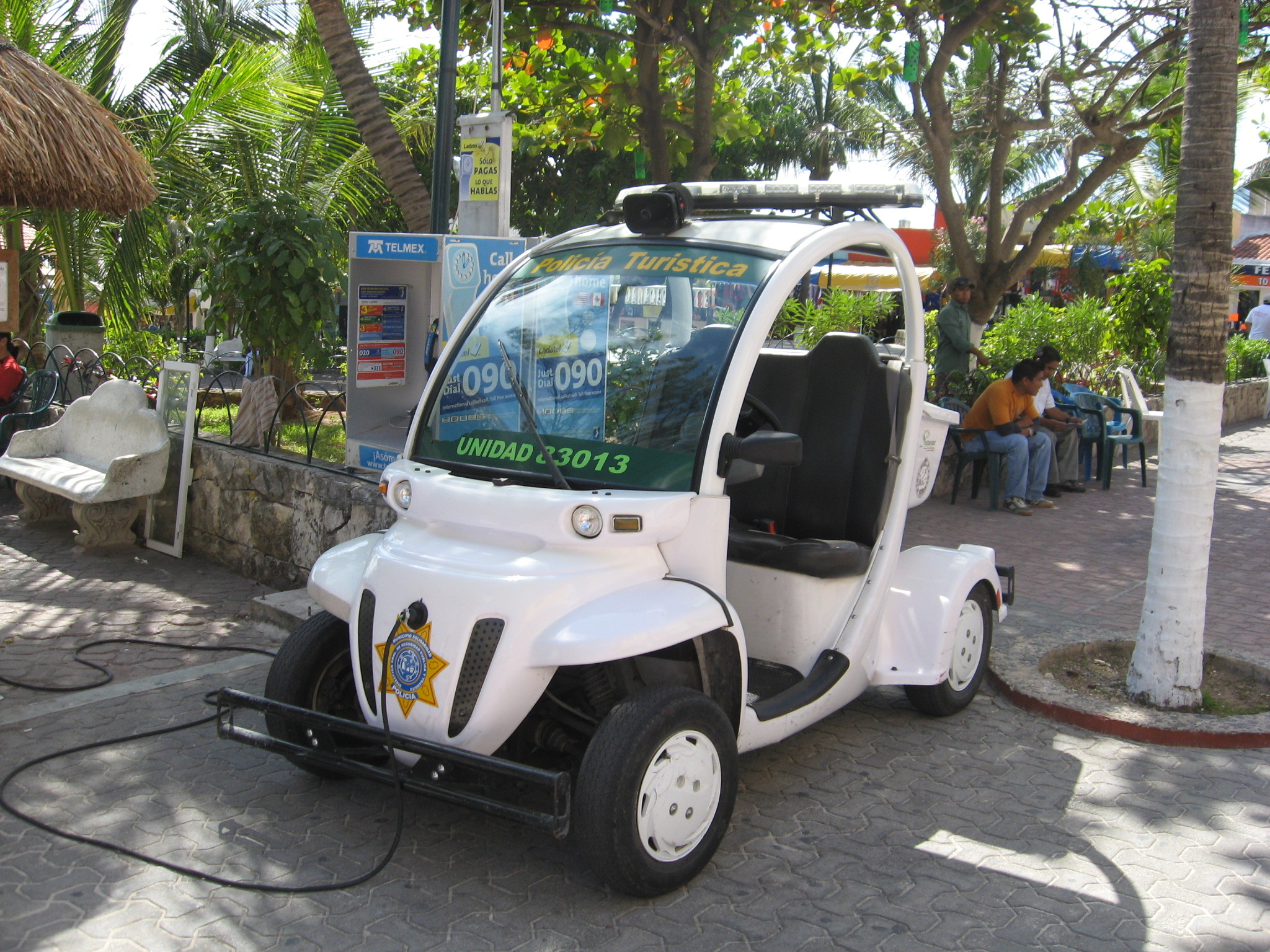 GEM-e2 neighbourhood electric vehicle being recharged in Mexico